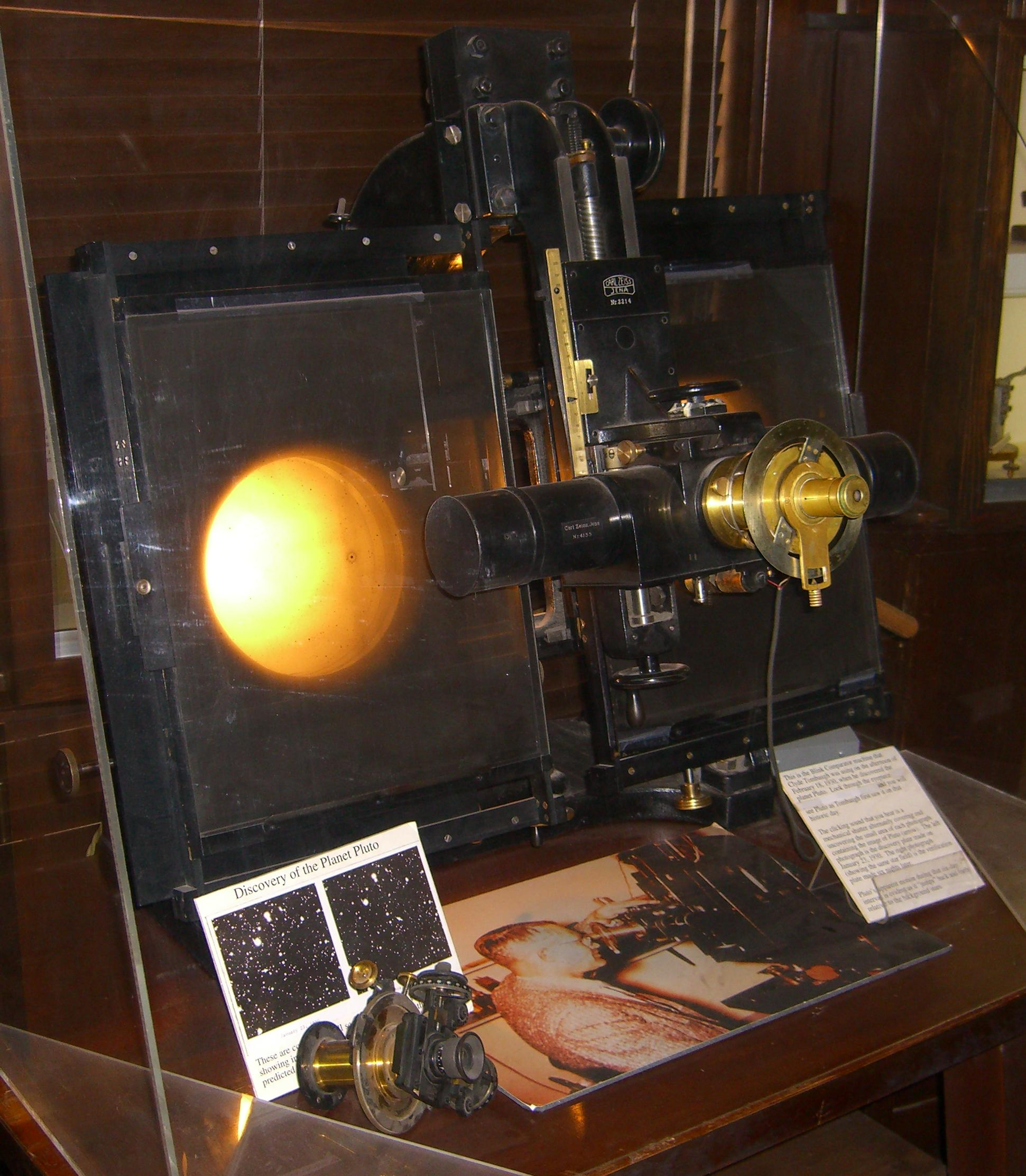 A Carl Zeiss Jena blink comparator at Lowell Observatory, used in the discovery of Pluto.